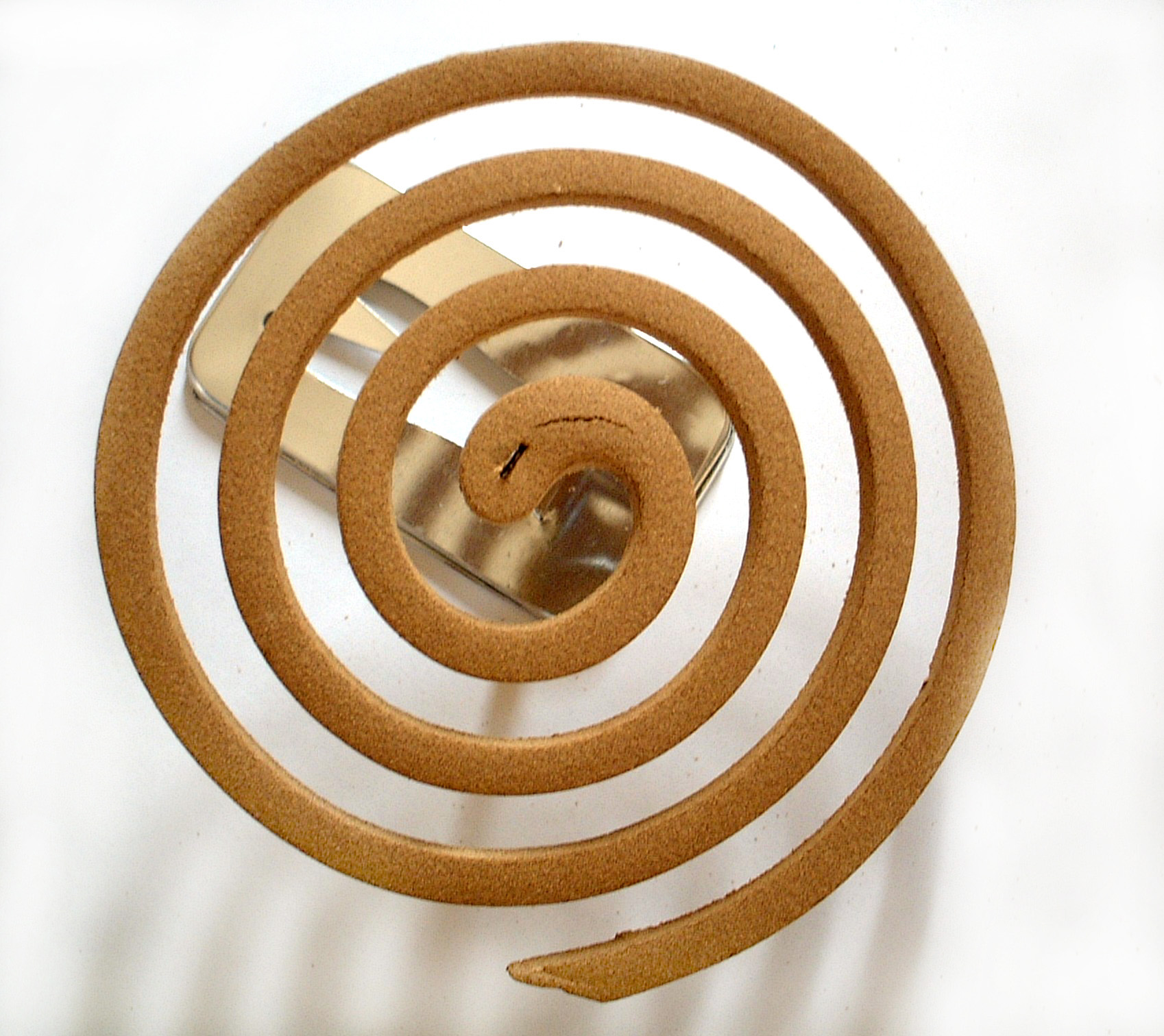 Katori Senkou. Photo taken in Japan.